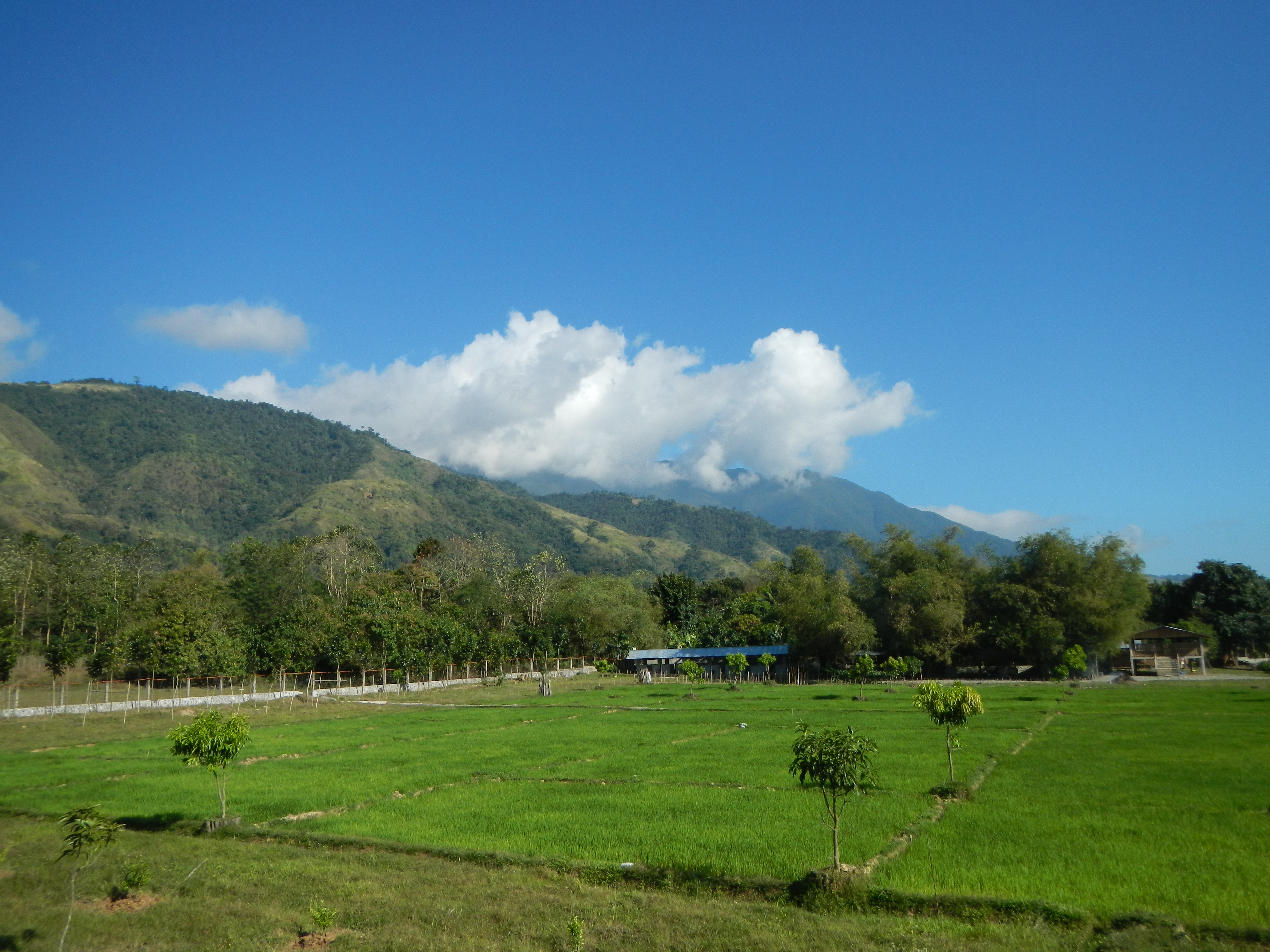 Sierra Madre (Philippines)[1]The Sierra Madre is a mountain range in the Philippines. It is located along the north-eastern coast of Luzon Island, running north/south. Quezon National Forest Park is situated in the range. Gabaldon, Nueva Ecija[2] (formerly Sabani and Bitulok) is a fourth class municipality in the province of Nueva Ecija, Philippines; it has a population of 32,246 people in 2010. Ilog Carugang (Carugang River) serves as the gateway to Sitio Carugang, a far-off place in Gabaldon, Nueva Ecija. The river has been a silent witness to the harvesting of what the people of Carugang had sown, for merchants have to cross the river so they can buy the crops the farmers planted and reaped.[3]